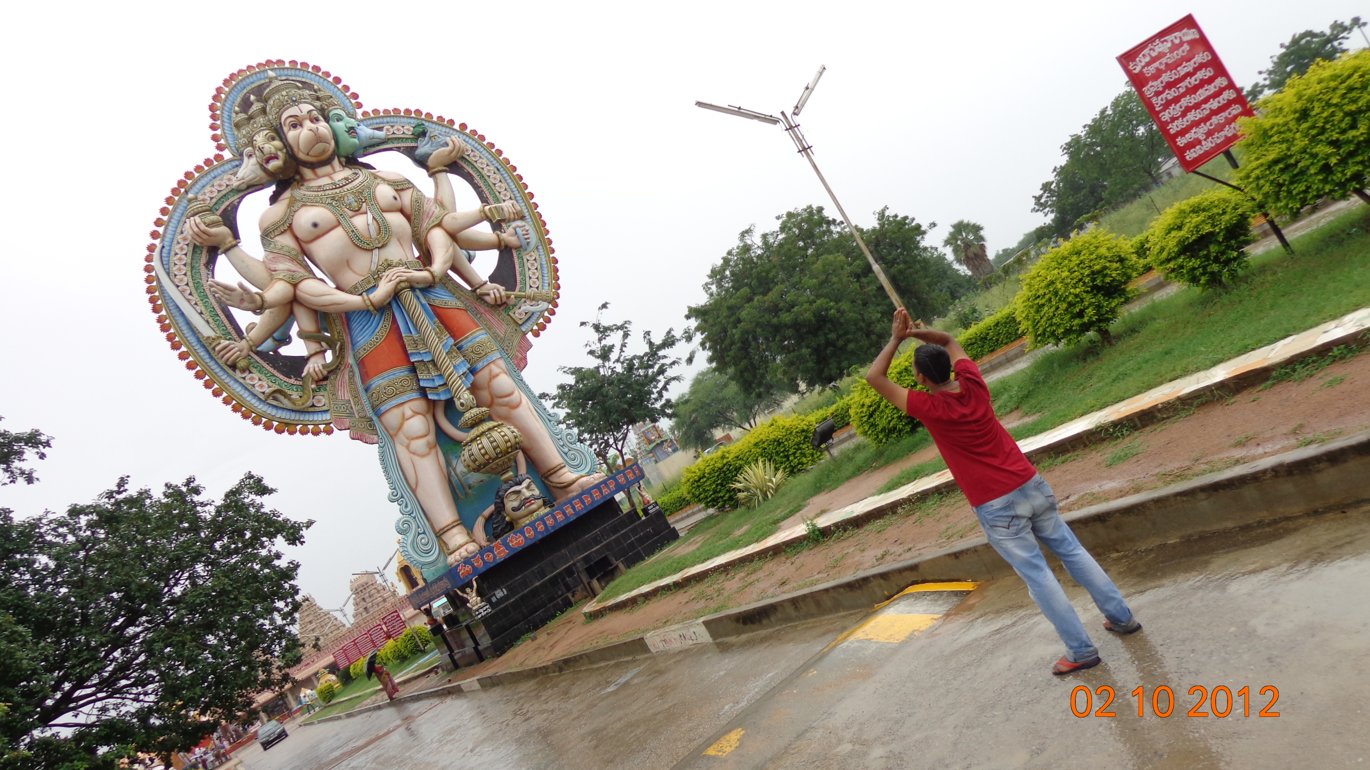 Namaskar (literally means "I bow to form)..నమస్కార భంగిమ